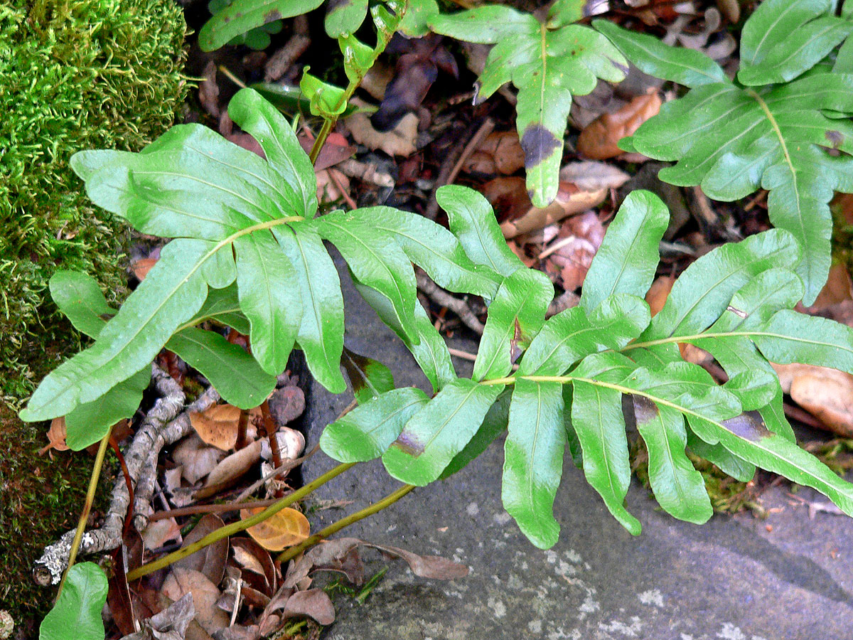 Photo of Polypodium scouleri at the Regional Parks Botanic Garden, Berkeley, California